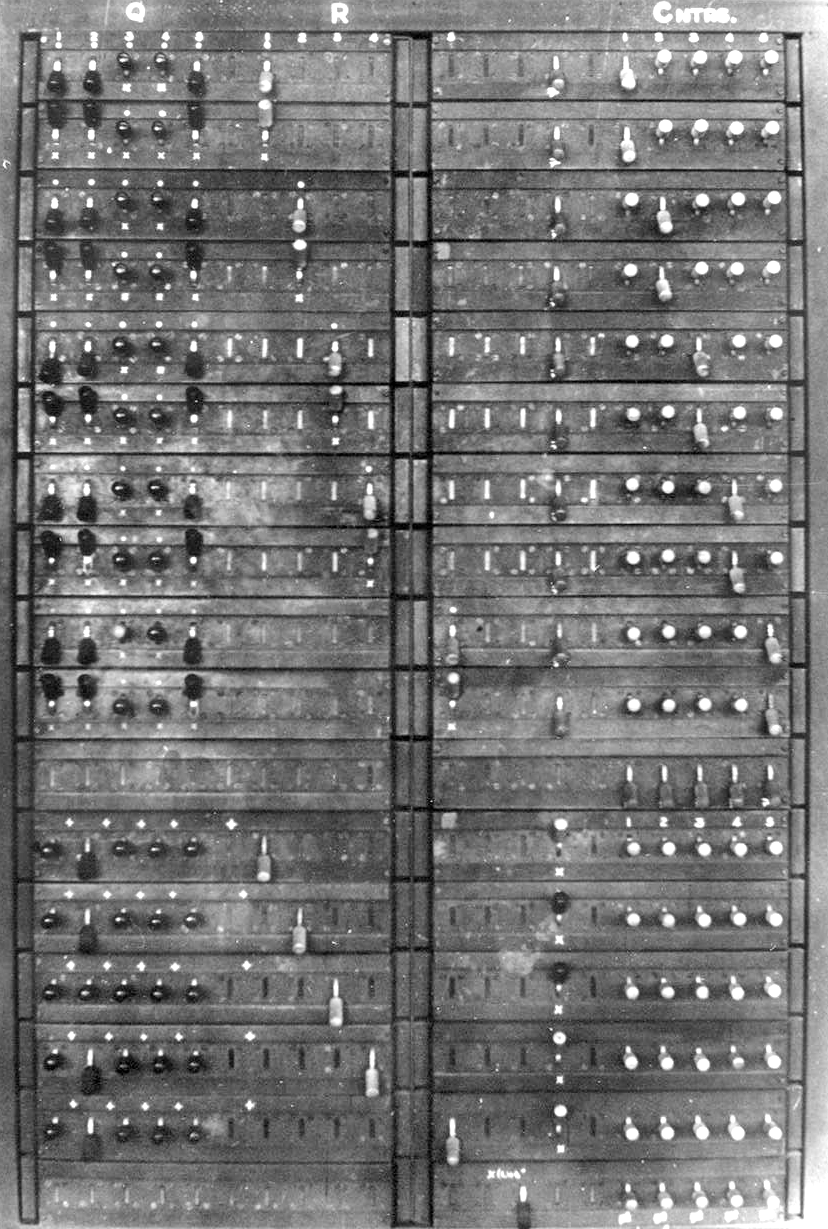 This wartime photograph of part of a Colossus computer shows the Q panel